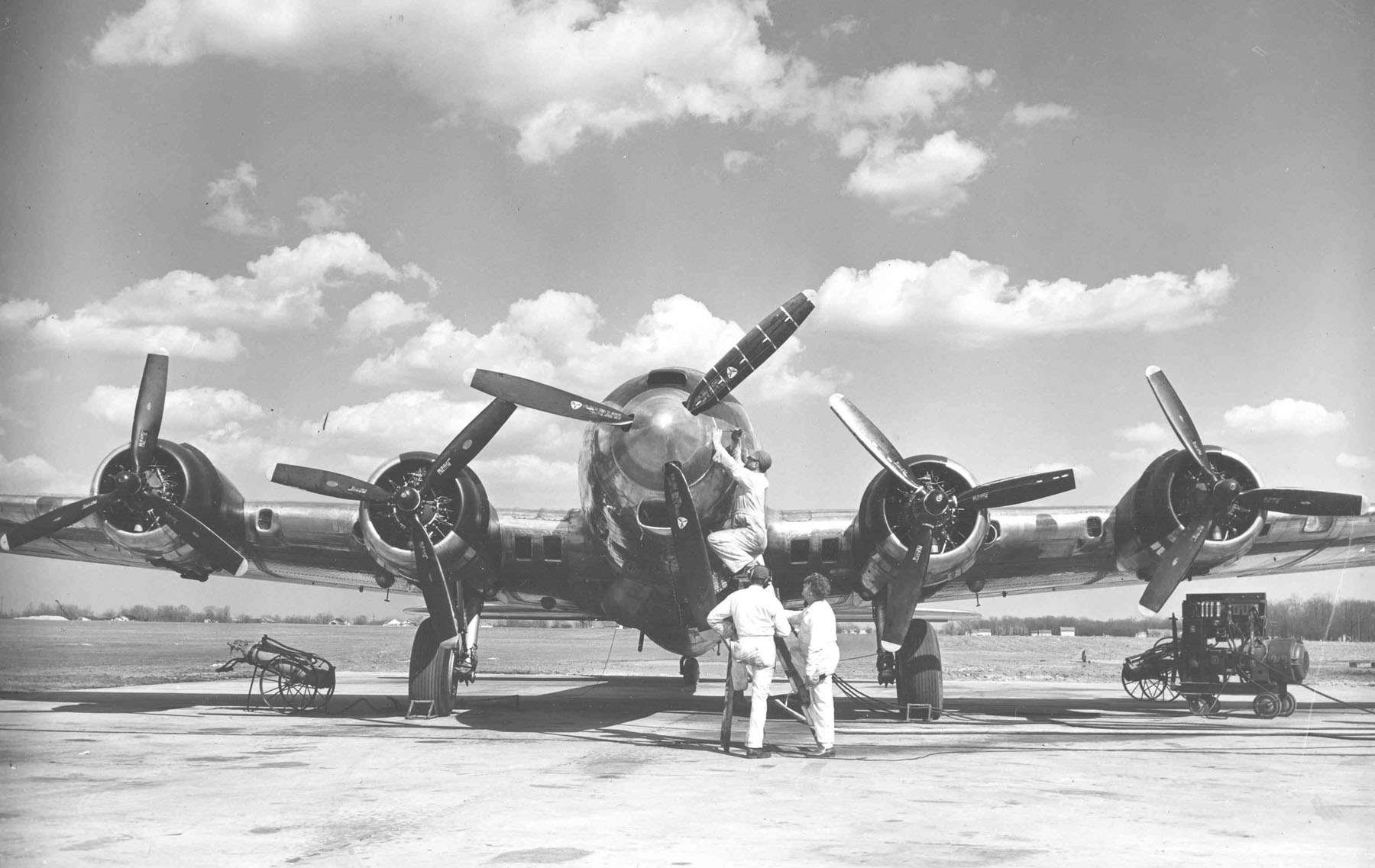 The most unusual conversions were three B-17Gs converted to engine test beds. The nose section was removed and replaced with a strengthened mount for a fifth engine. The Pratt & Whitney XT-34, Wright XT-35, Wright R-3350 and Allison T-56 engines were all flight tested on JB-17Gs.